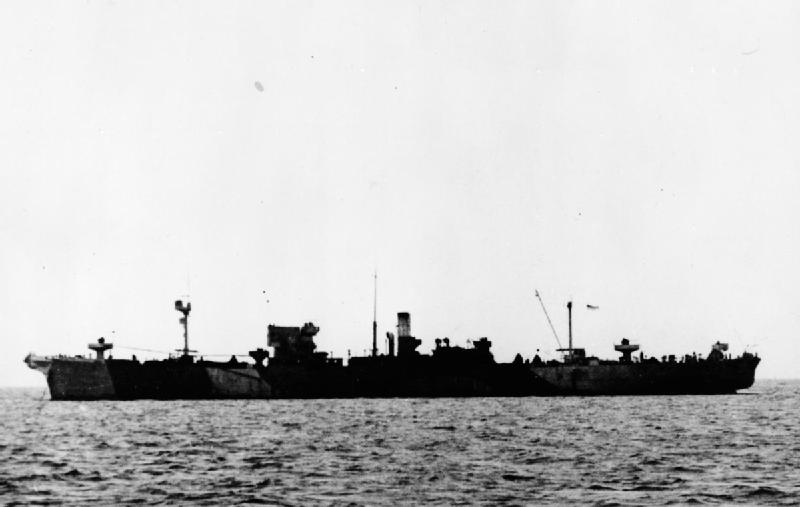 Laying the 17th 'Pluto' Pipeline from Dungeness to Boulogne.